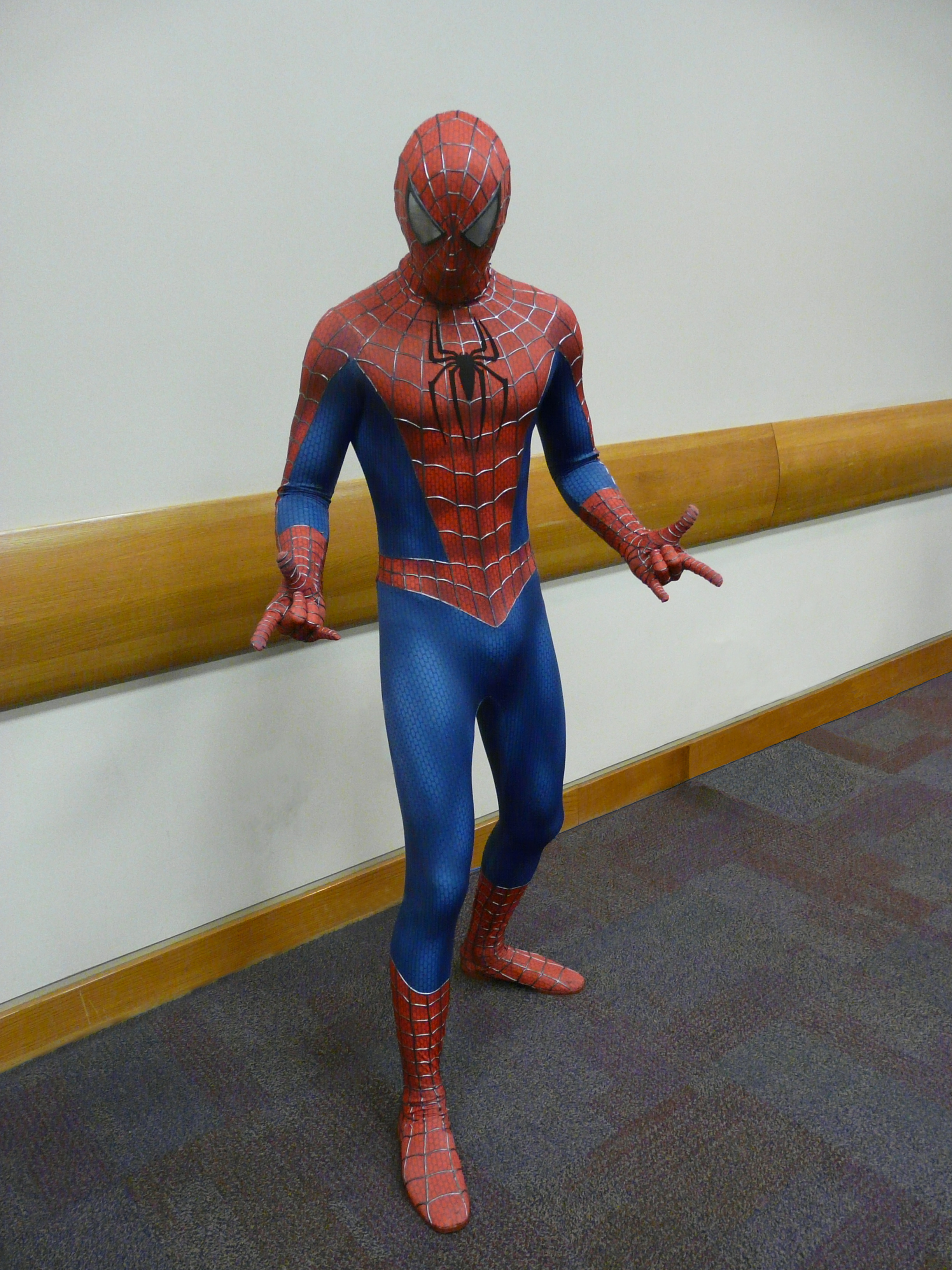 Picture of Gen Con Indy 2008 in Indianapolis, Indiana, USA.